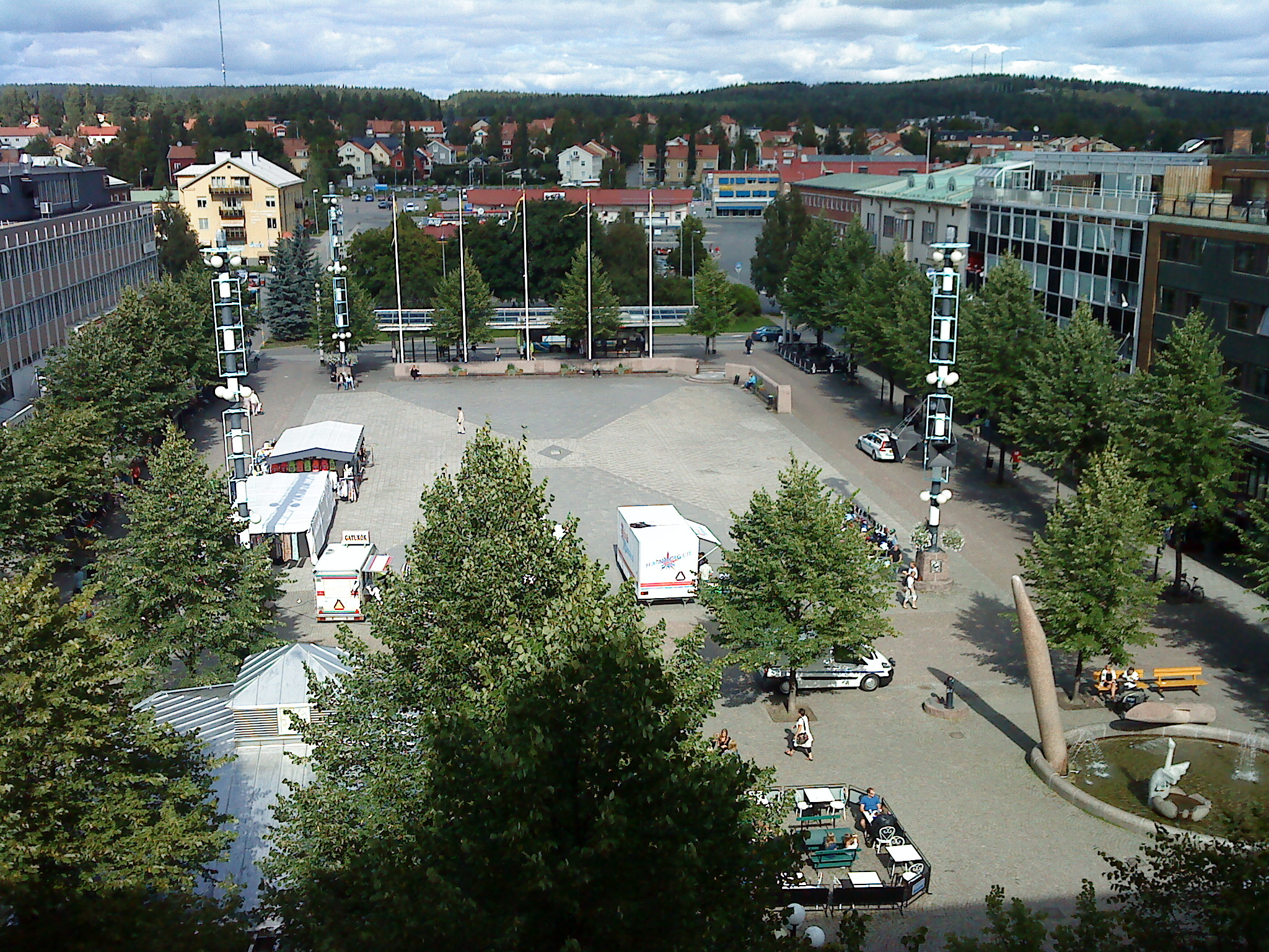 The central square "Möjligheternas Torg" in Skellefteå, Sweden, seen from the south.